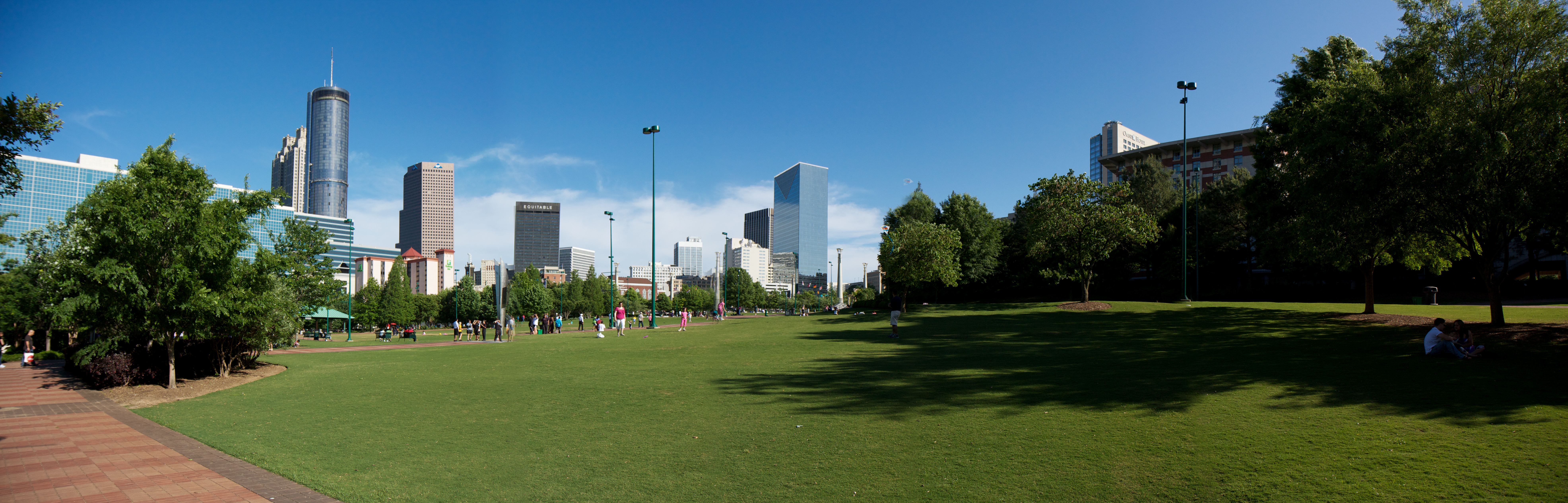 Centennial Olympic Park, Atlanta